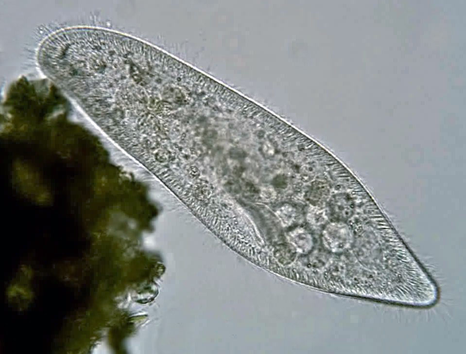 The ciliated protozoan Paramecium caudatum.